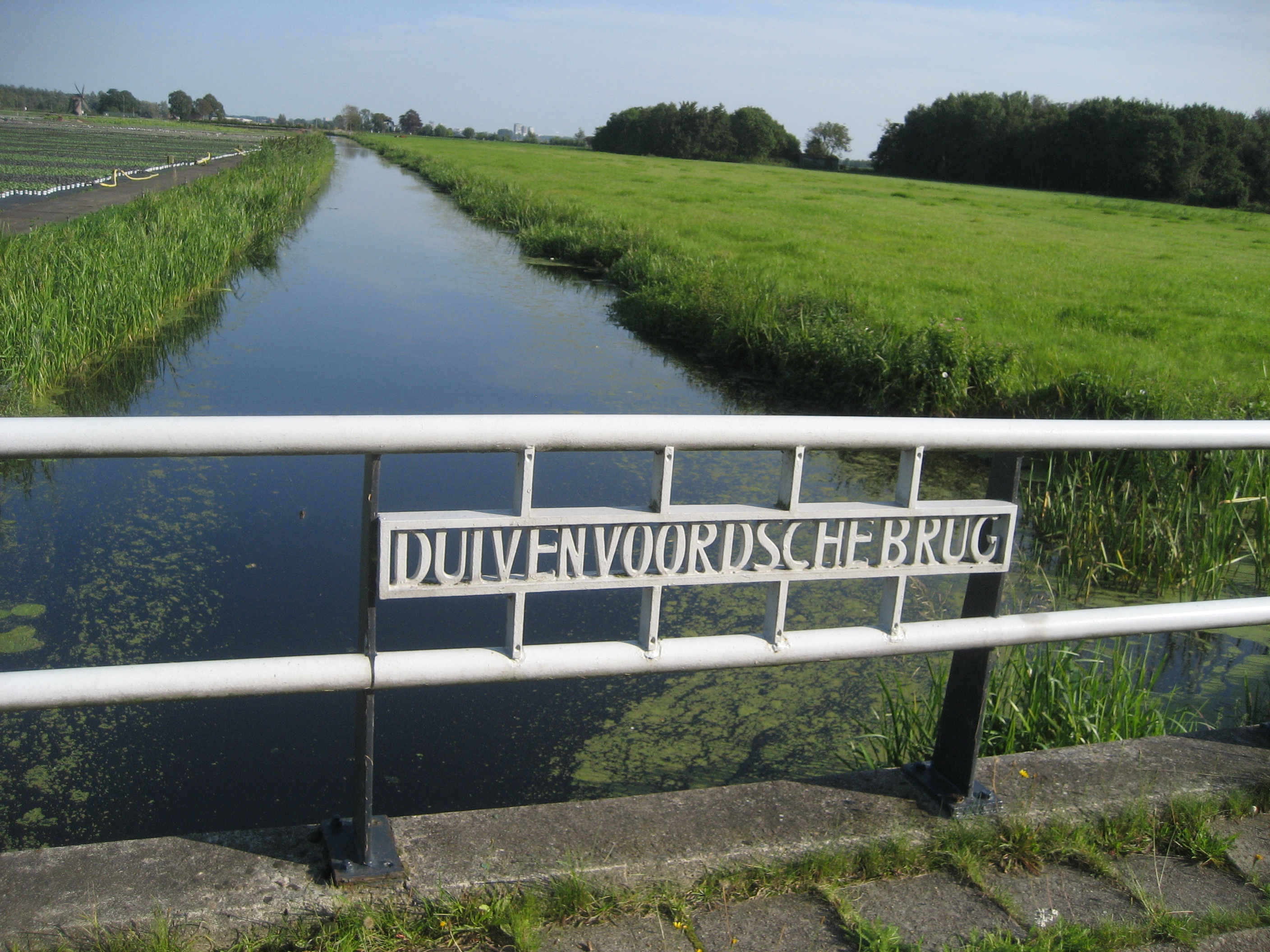 Duivenvoordsche brug, Leidschendam (The Netherlands)